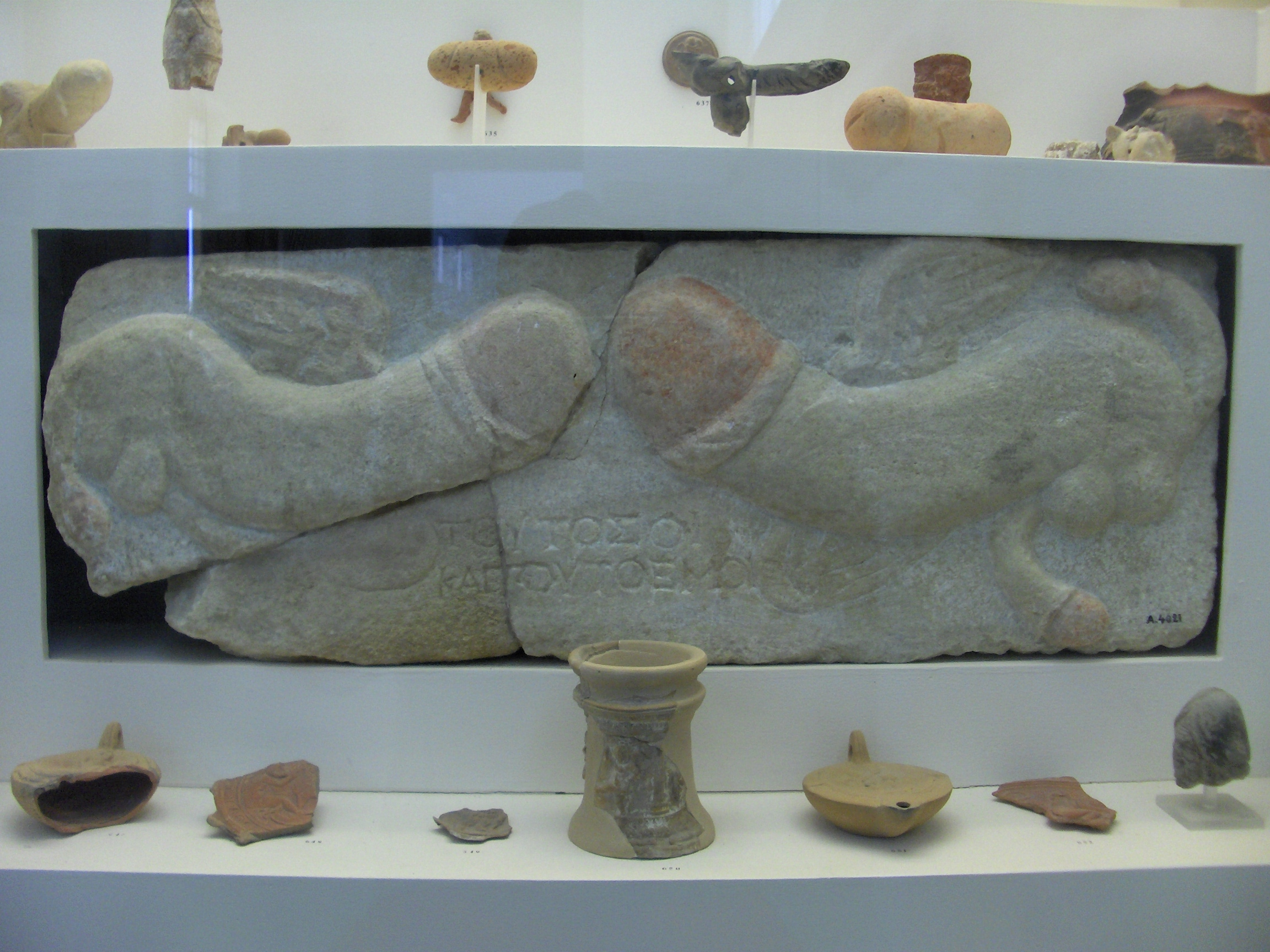 Exhibit at the museum of Delos.